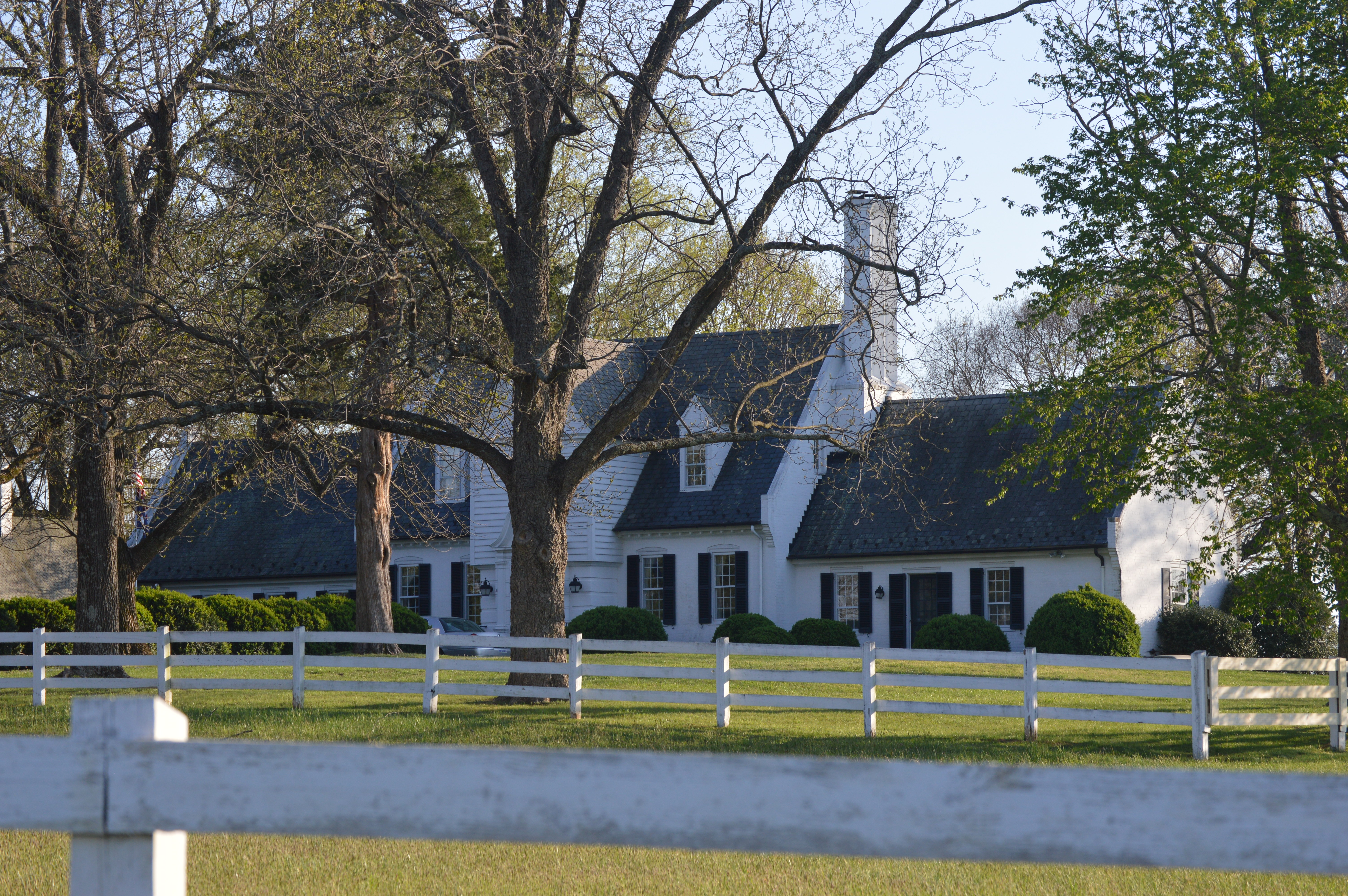 Front of the main house at the Glenn Mary Farm, located at 7548 Bellevue Road west of Goode in Bedford County, Virginia, United States. Built in 1939, it is part of the Bellevue Rural Historic District, a historic district that is listed on the National Register of Historic Places.